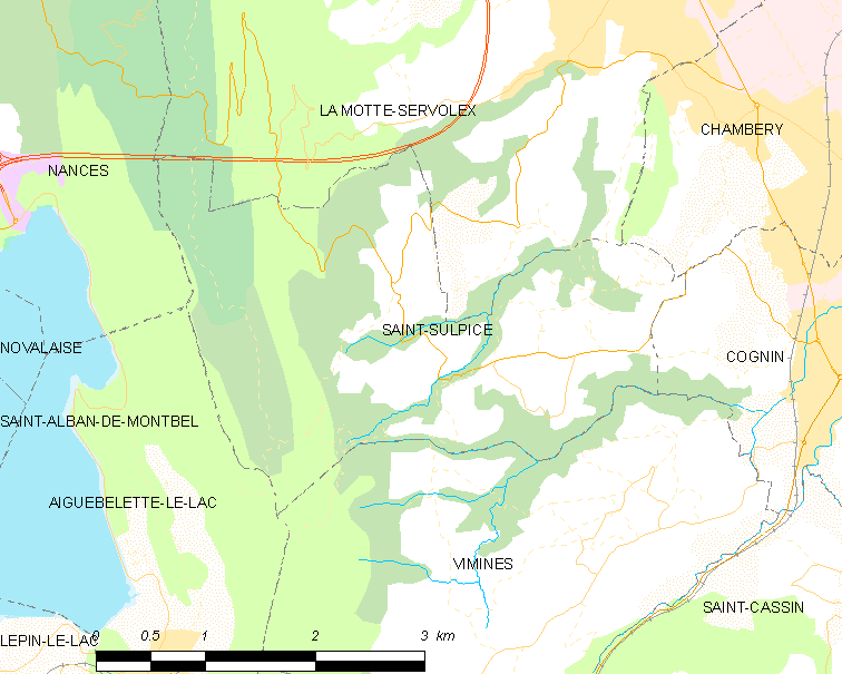 Map of French municipality Saint-Sulpice